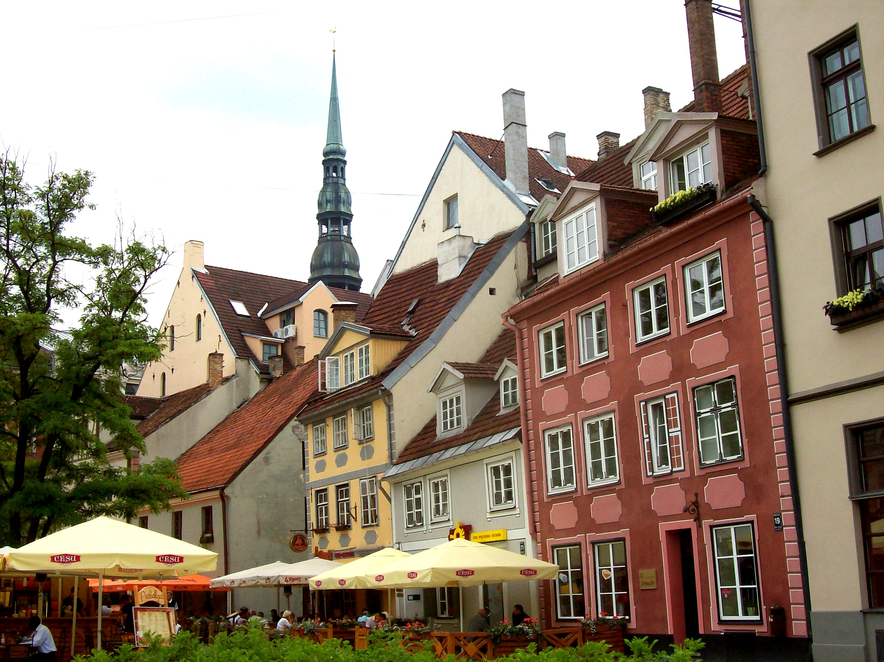 Old Riga: Livonian Square and the tower St. Peter's Church.